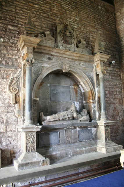 Sir Roger Manners Son of John Manners and Dorothy Vernon of Haddon Hall, he died in 1632